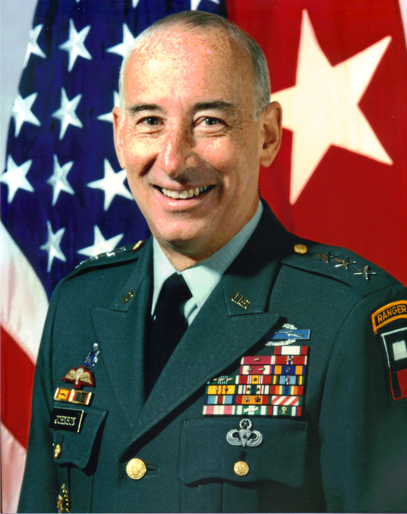 1992 Department of the Army photo of Lieutenant general James H. Johnson Jr., Commander, First United States Army (1991-1993)